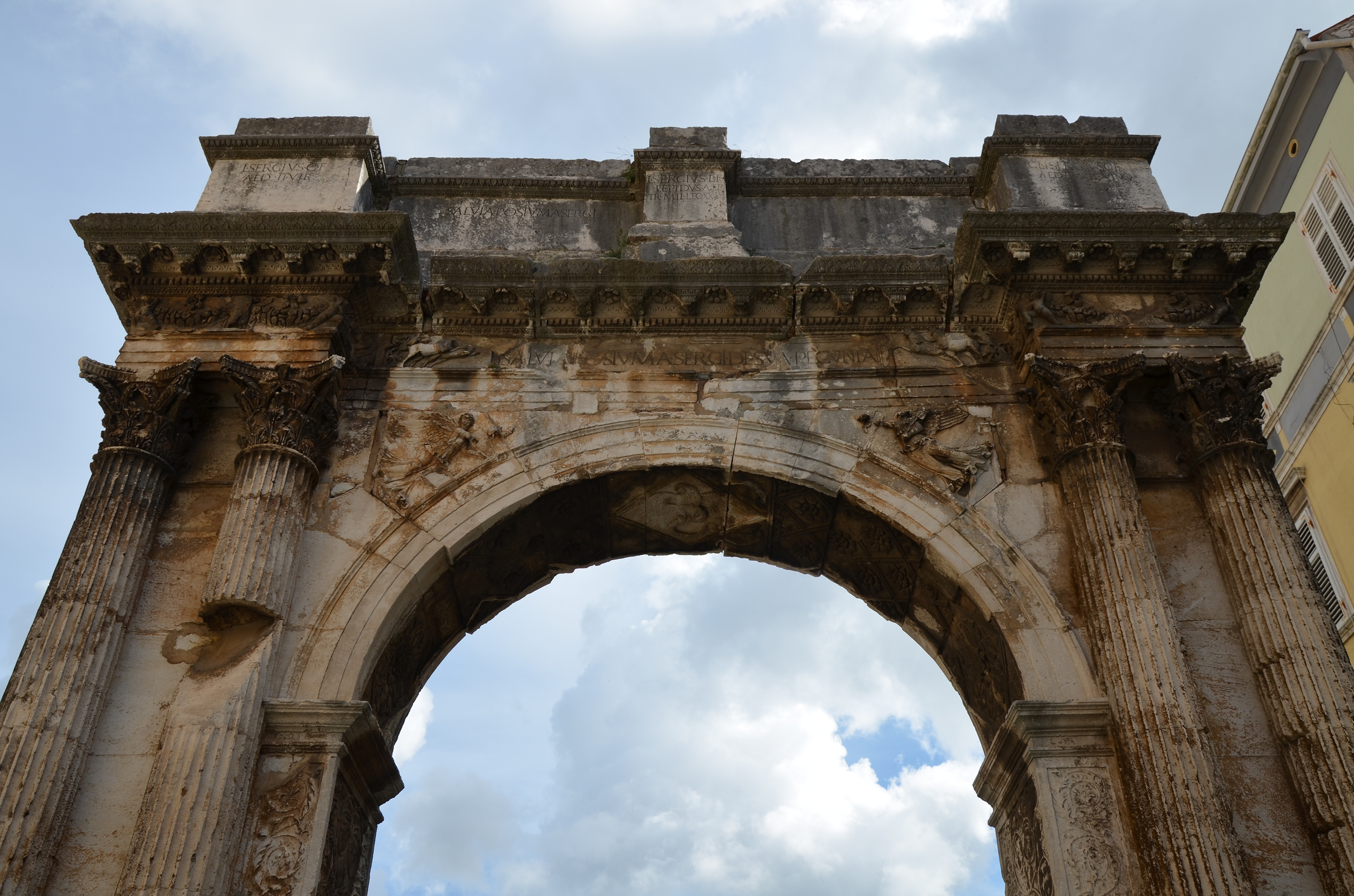 Arch of the Sergii, Colonia Pietas Iulia Pola Pollentia Herculanea, Histria